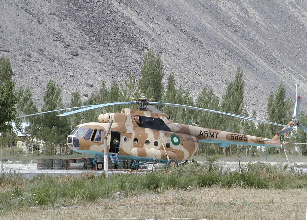 A Pakistan Army helicopter at the Skardu Airport in Northern Areas, Pakistan. Date= 9 August, 2002 (exif info is off by one day) Photo by Waqas Usman.See more photos at and